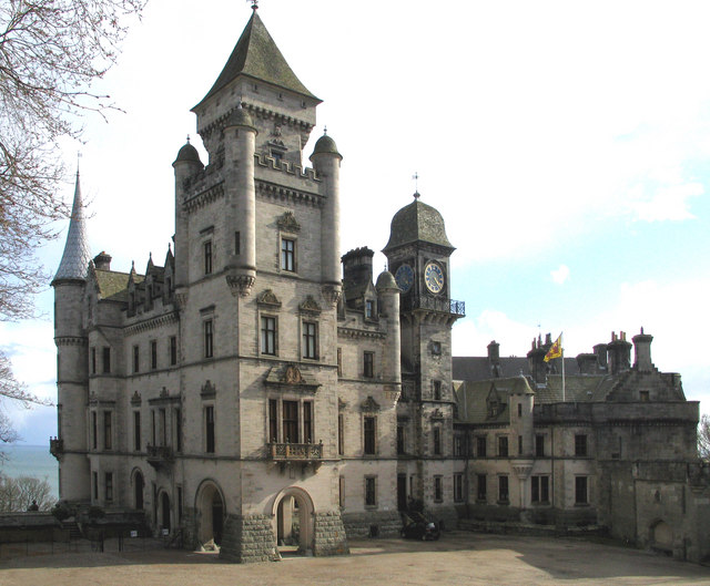 Dunrobin Castle North front of castle. View taken from public car park.